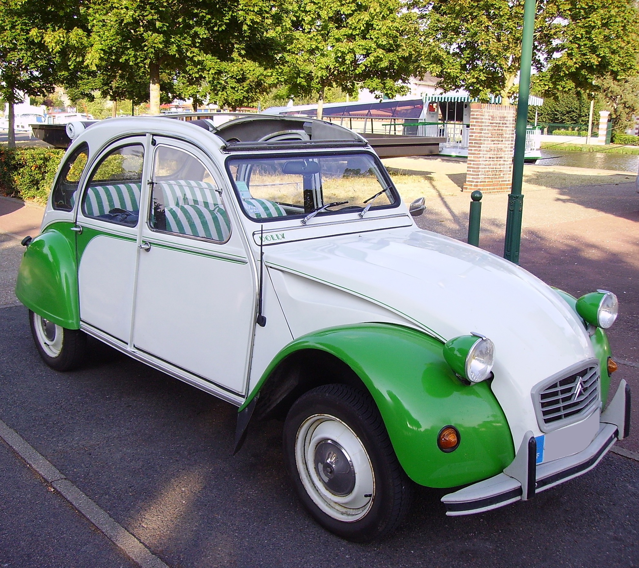 Citroën 2CV model "Dolly".